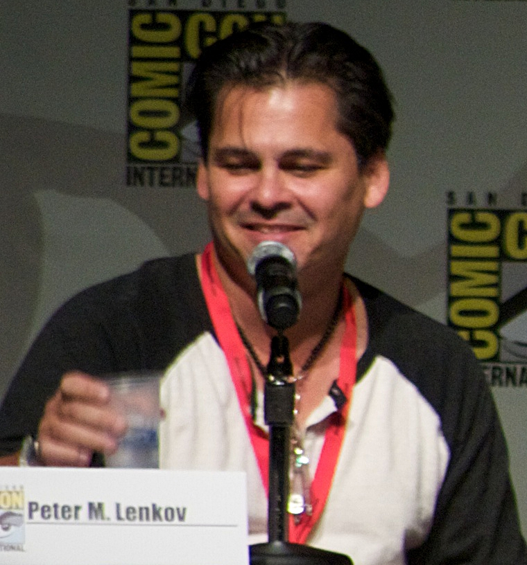 Producer Peter M. Lenkov at San Diego 2010 Comic-Con International.